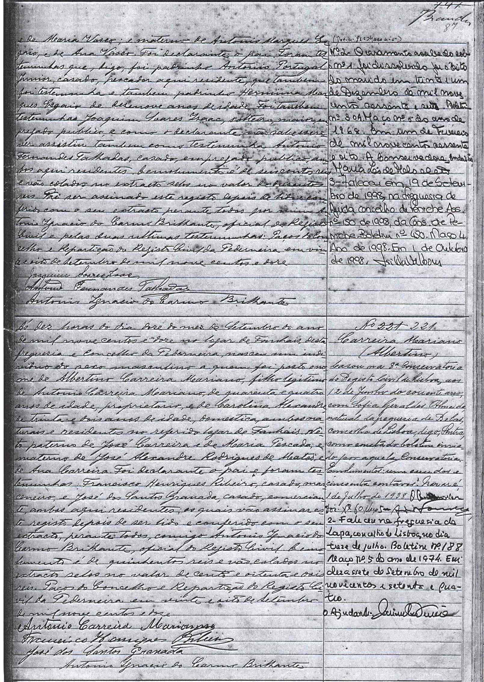 Facsimile of the birth registration document of Albertino Carreira Mariano. Original dated 1912. Part 2.